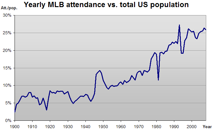 Graph of the yearly total Major League Baseball attendance as a percentage of US population size, as estimated by the U.S. Census Bureau. The years covered are 1900 through 2008. Attendance data was gathered from Sean Lahmann's Baseball Database Version 5.6. The Census data can be found here (1900-1999) and here (2000-2008).